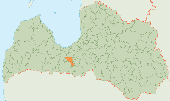 Map of Ozolnieku novads (Ozolnieki municipality) (since 2009) This image includes elements that have been taken or adapted from this file: Location Novads.svg (by Kikos).